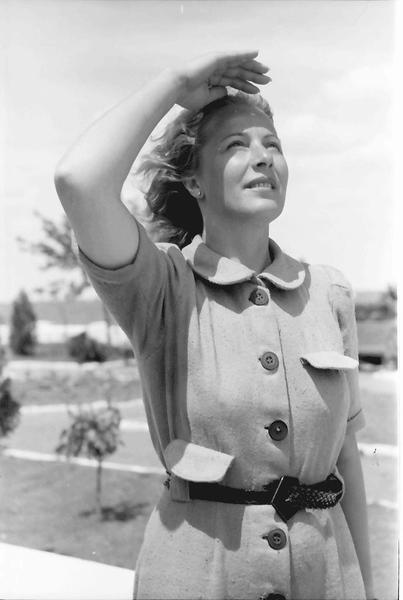 Bolshoi Fontan [Ukraine]: Irina Burnaia, transport squadron commander, with hand on forehead